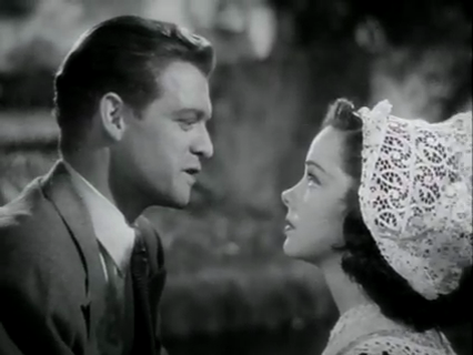 V. Heflin and K. Grayson in the trailer for the film Seven Sweethearts (1942), directed by Frank Borzage